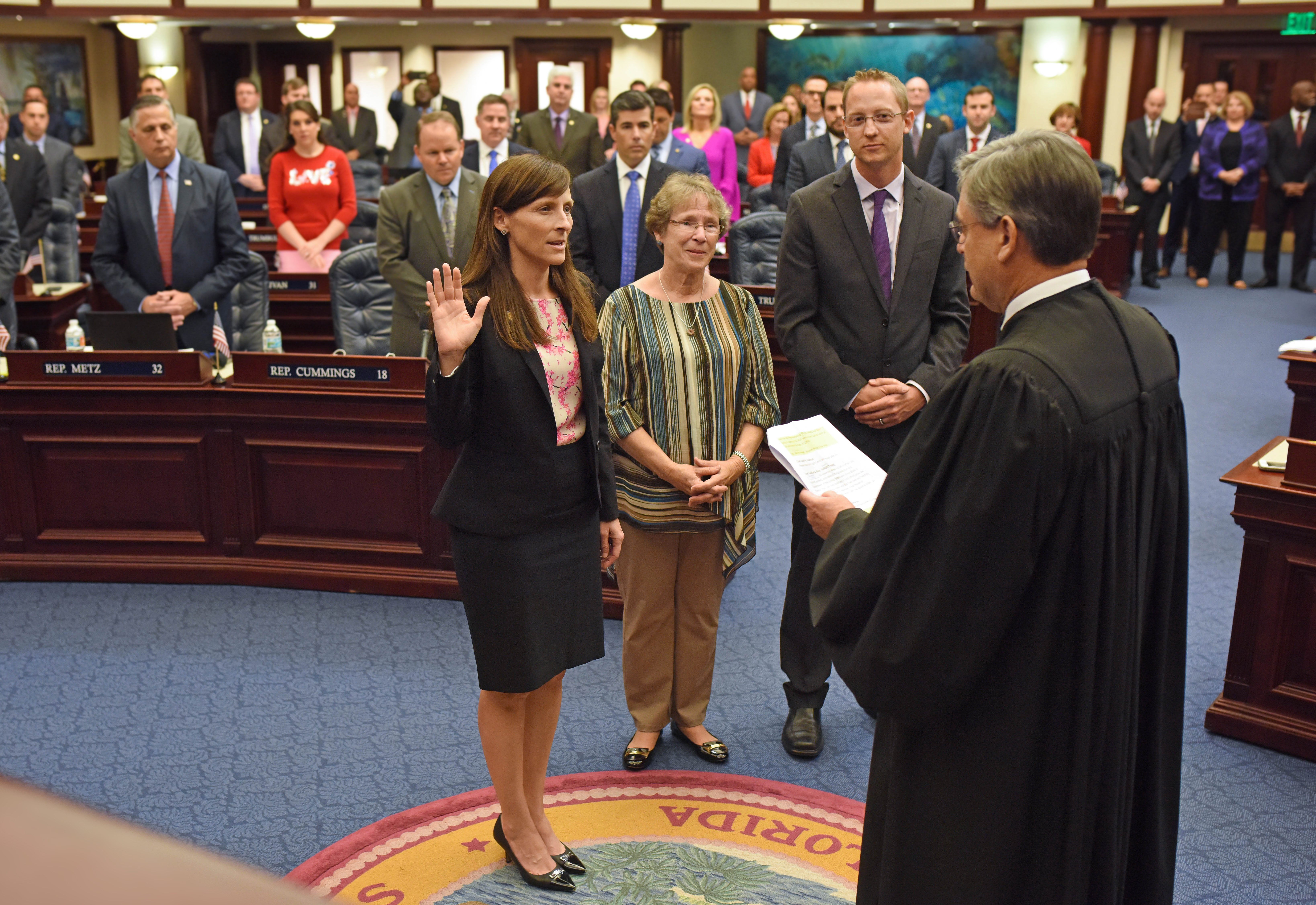 New House member Rep. Margaret Good, D-Sarasota, is sworn in by Chief Justice Jorge Labarga, on the House floor, February 14, 2018.